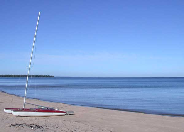 Sailboat on the beach in Au Train Bay in Alger County (taken Sept. 30, 2004)